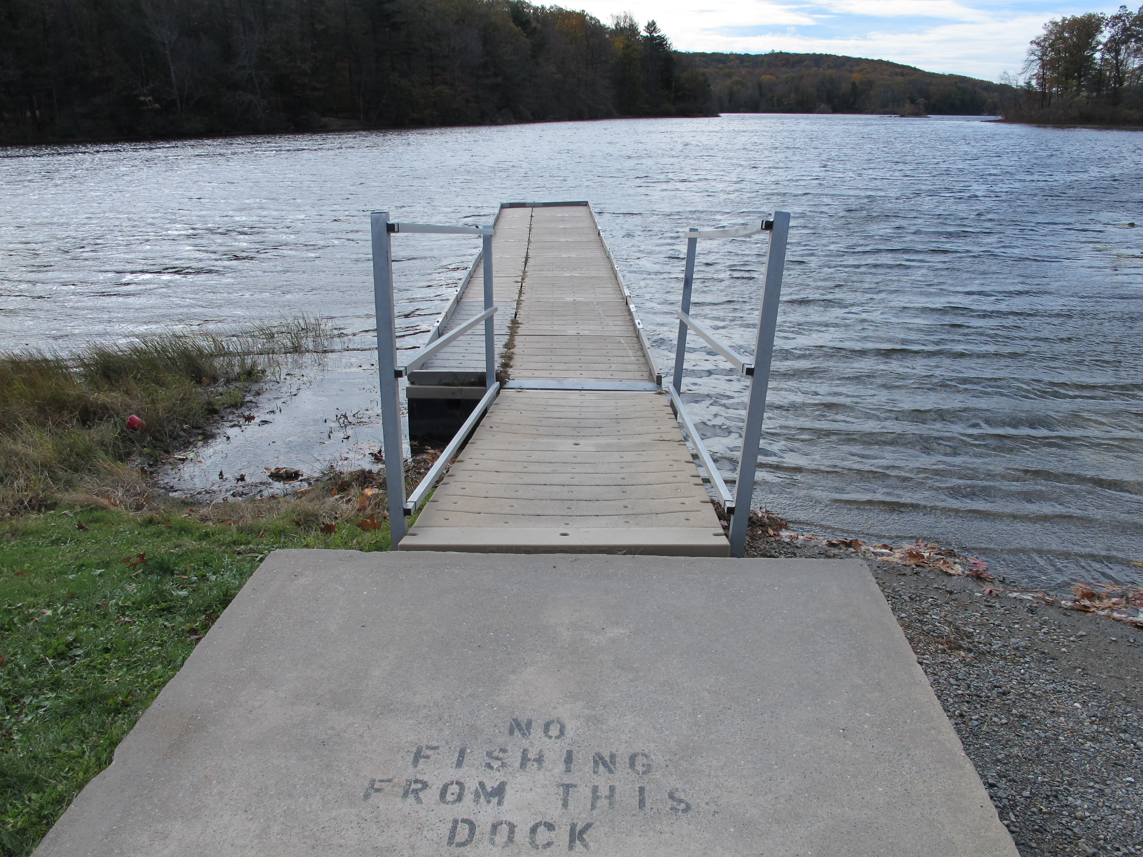 At the northside of Wawayanda Lake, close to the parking lot